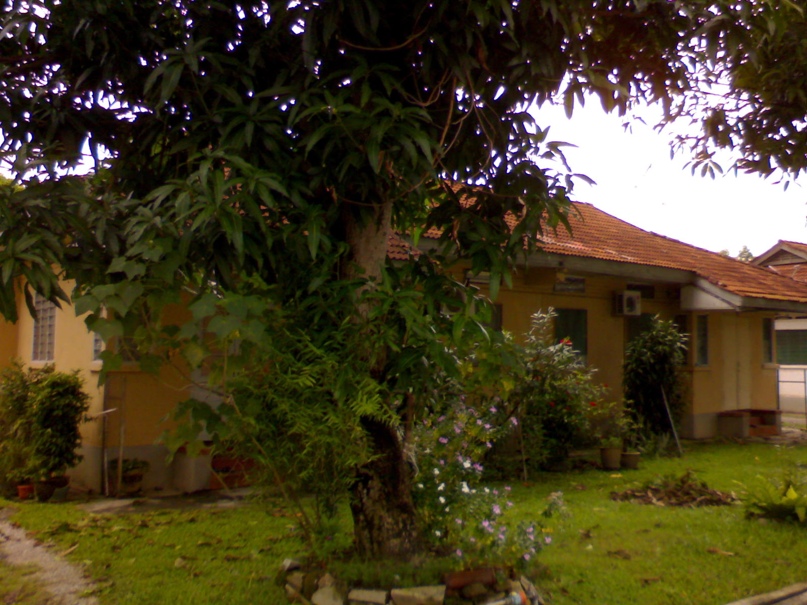 This is one of the residences provided to teachers and staff of Chung Ling (National Type) High School.